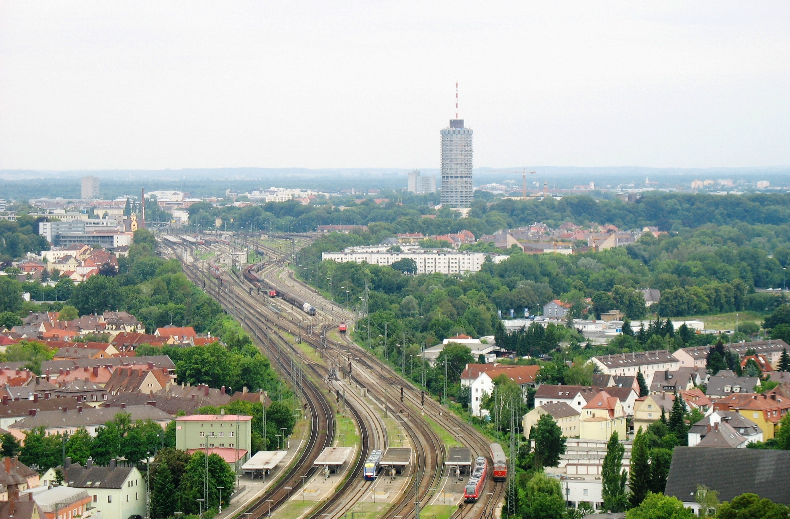 Augsburg, railway and main station, green trees along river Wertach. Far in background: Bavaria.